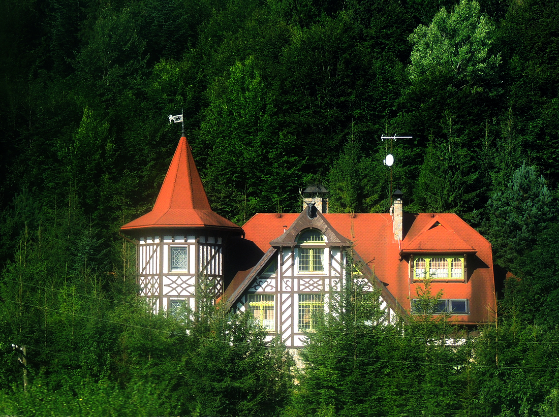 Old Villa in Skole raion, Lviv oblast (Ukraine)